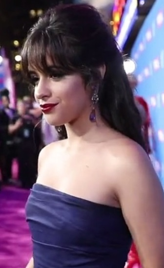 Camila Cabello at MTV VMA 2018